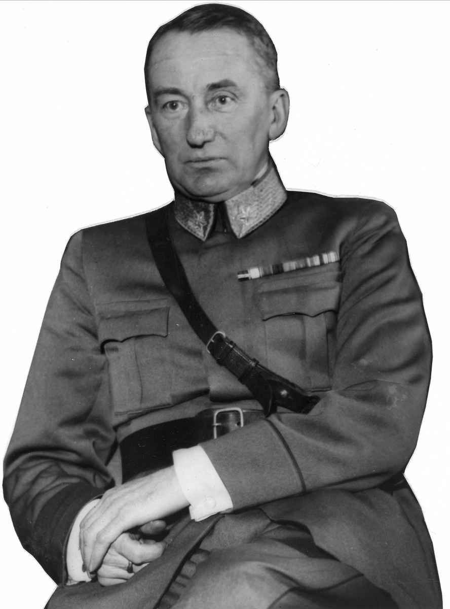 Cropped photo of Jacob Hvinden-Haug, from the homepage of Oslo Museum. The photo is more than 70 years old and is public domain